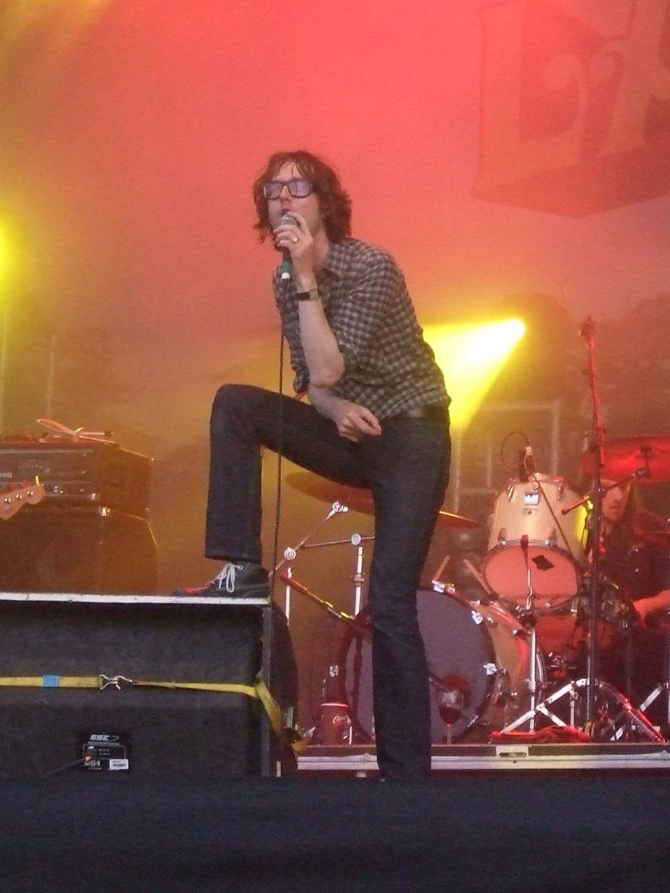 Jarvis Cocker Latitude Festival 2007